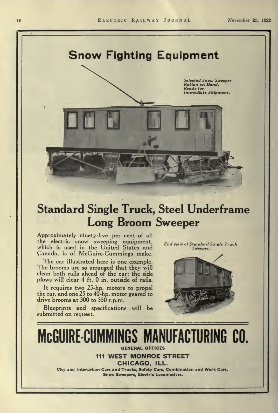 Ad for snow sweeper streetcars built by the McGuire-Cummings Manufacturing Company, published in the Electric Railway Journal, November 25, 1922 (Vol. 60, No. 22).